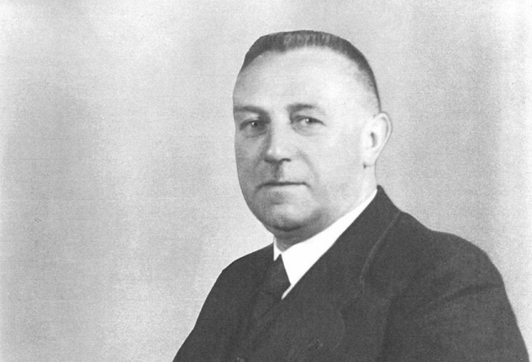 Founder Otto Benninghoven